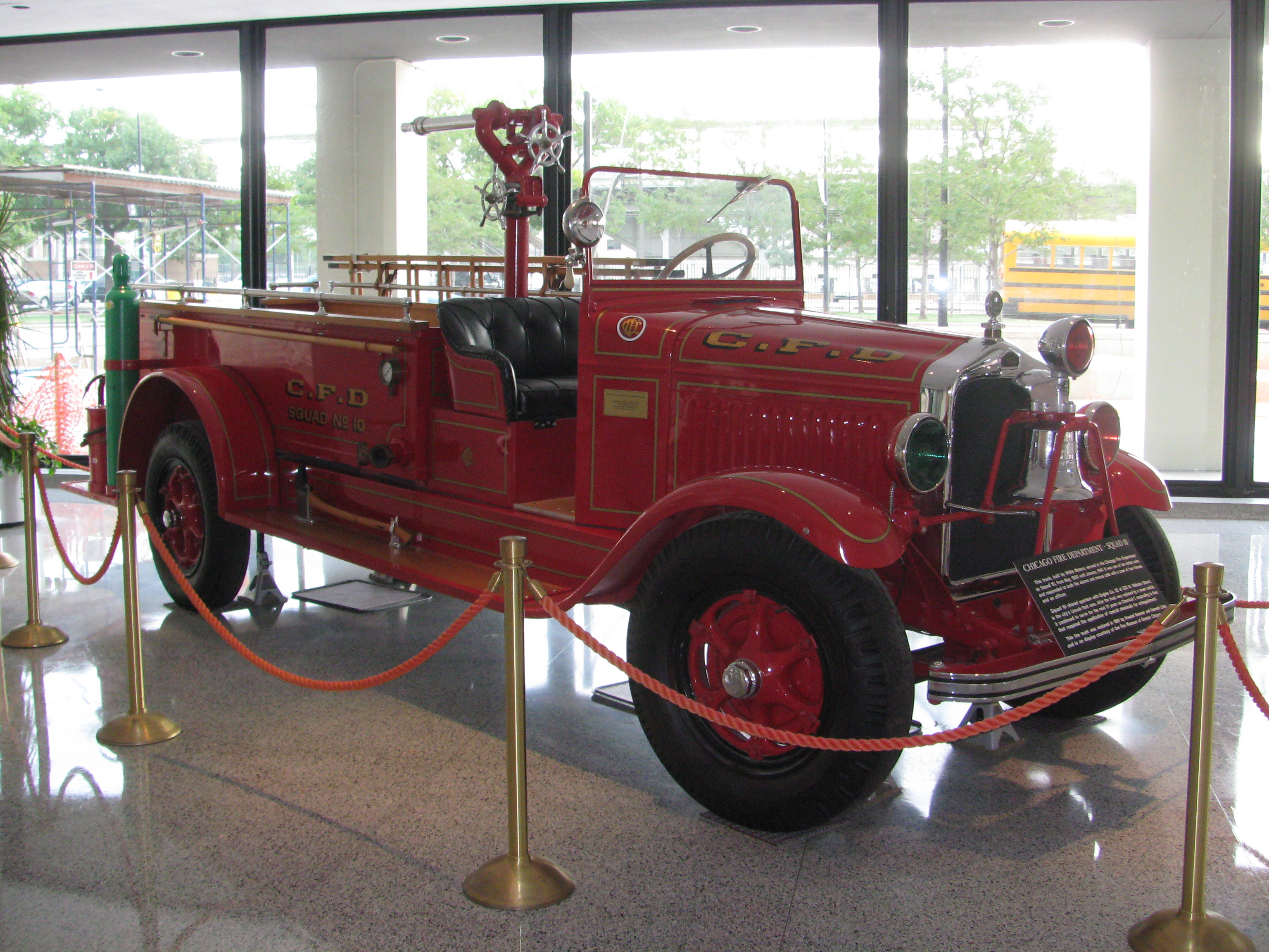 Old Chicago Fire Department Truck